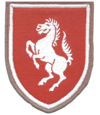 19th Armored Grenadiers Brigade